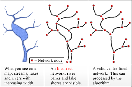 An image that demonstrates what must be a valid network for the algorithm to process.